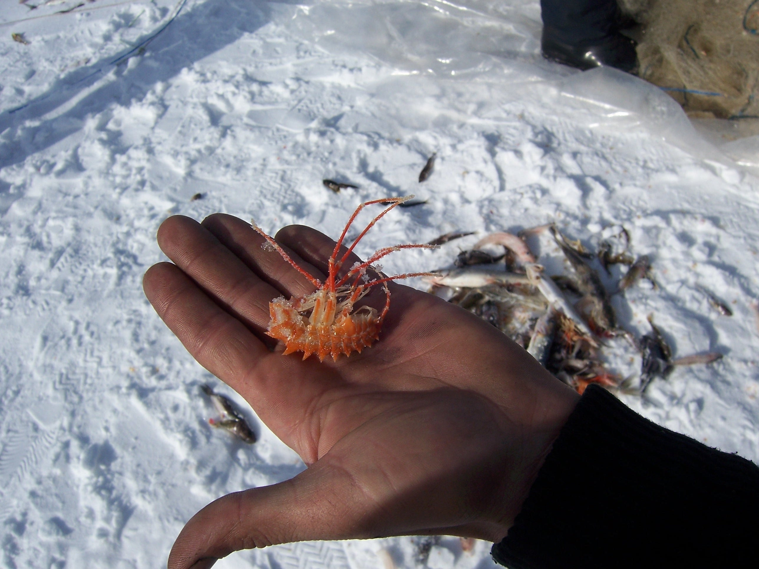 Brachyuropus reicherti (synonym: Acanthogammarus reicherti) amphipod caught during ice-fishing in Lake Baikal